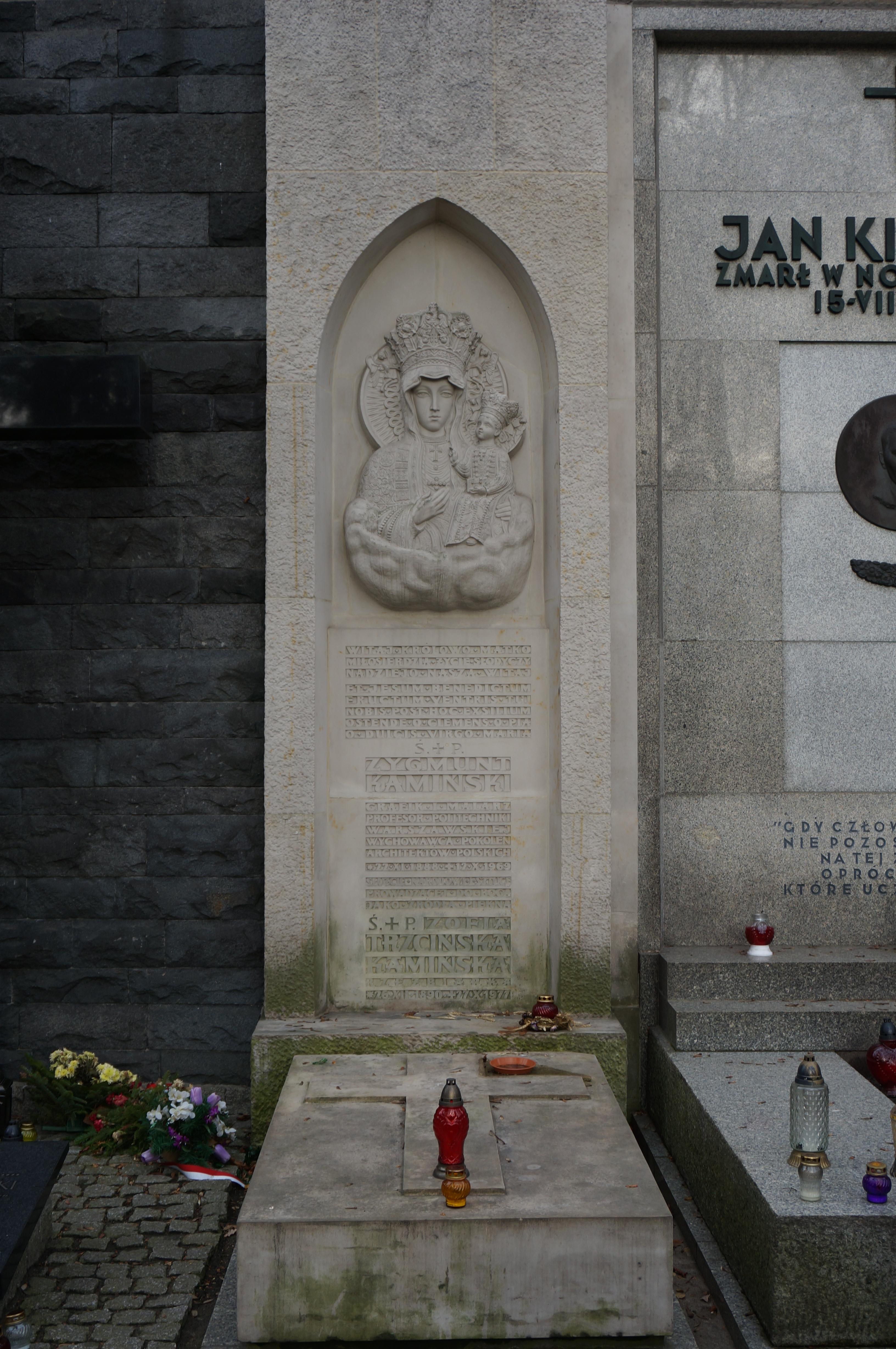 The grave of Zofia Trzcińska-Kamińska at the Powązki Cemetery (Avenue of Deserved, grave 79)